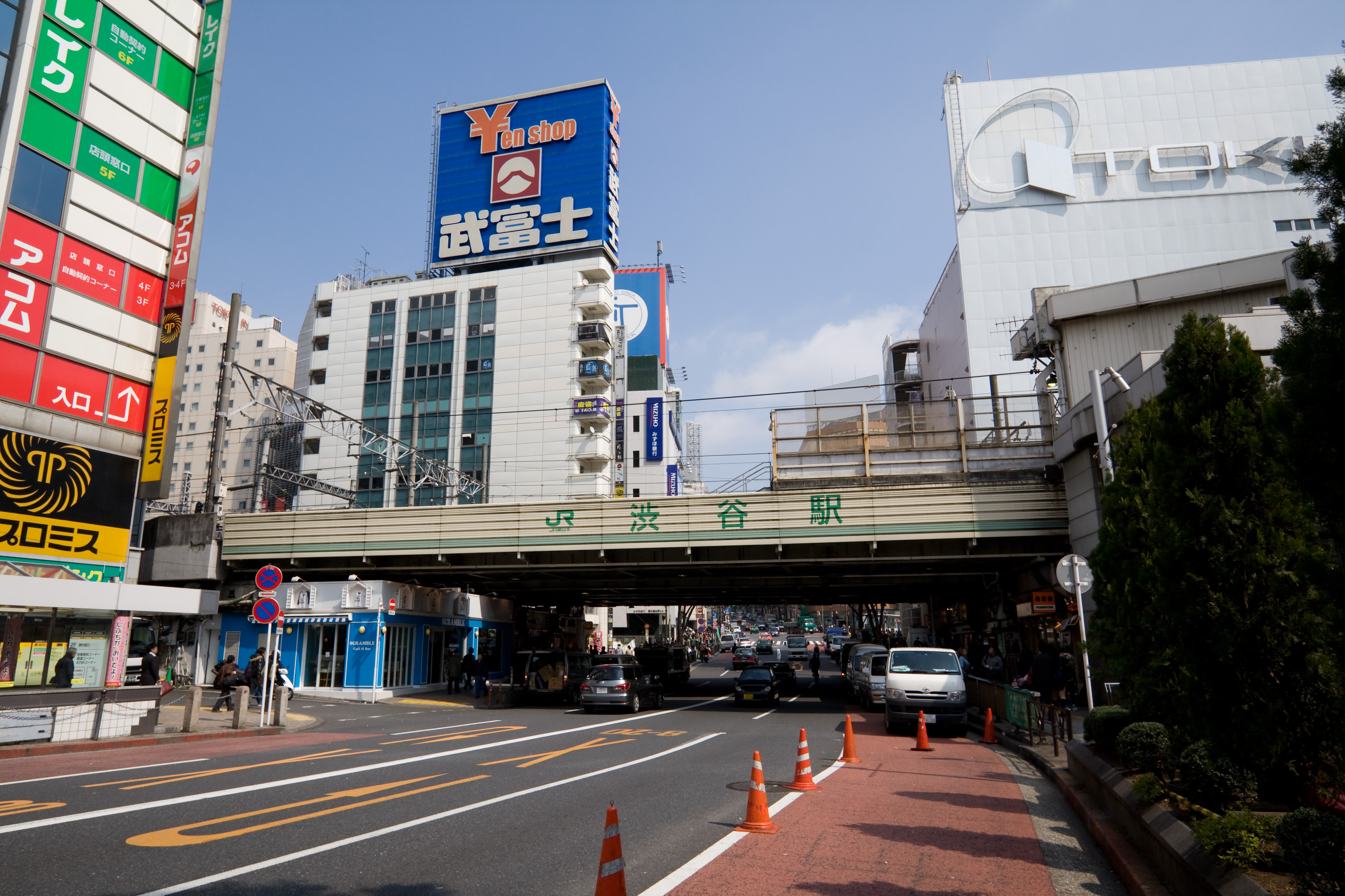 JR Shibuya Station Girder